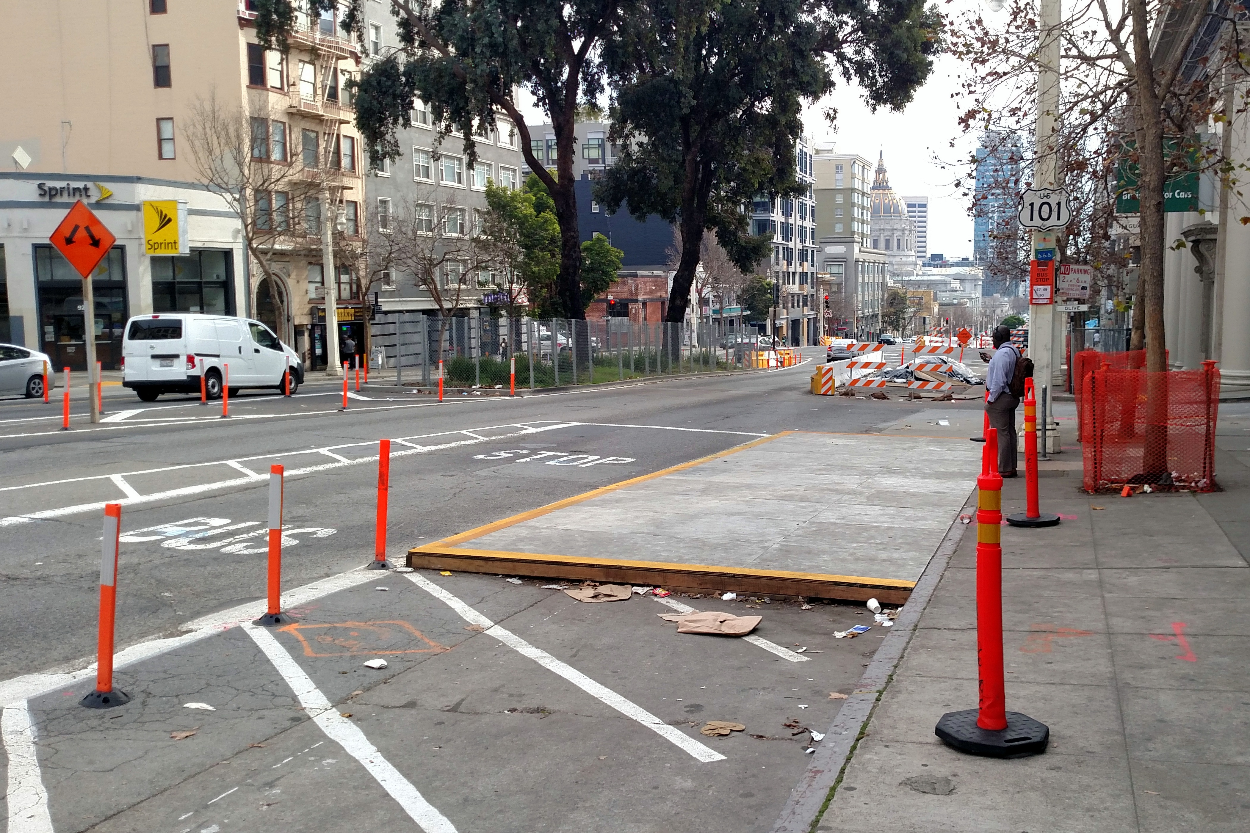 Temporary bus stop on Van Ness at O'Farrell, used during Van Ness BRT construction, in January 2018